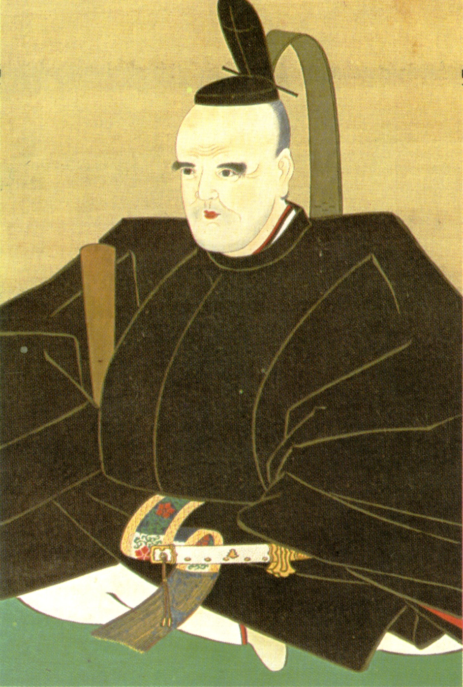 Portrait of Ogasawara Tadakatsu